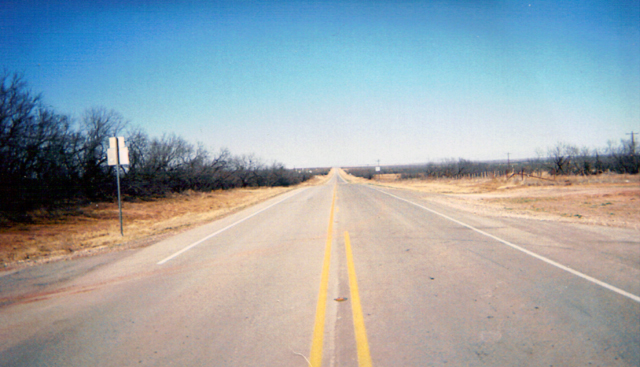 Northbound Texas Highway 208 from Clairemont, Tx. Photo by Danny Burton, May 15,2006.